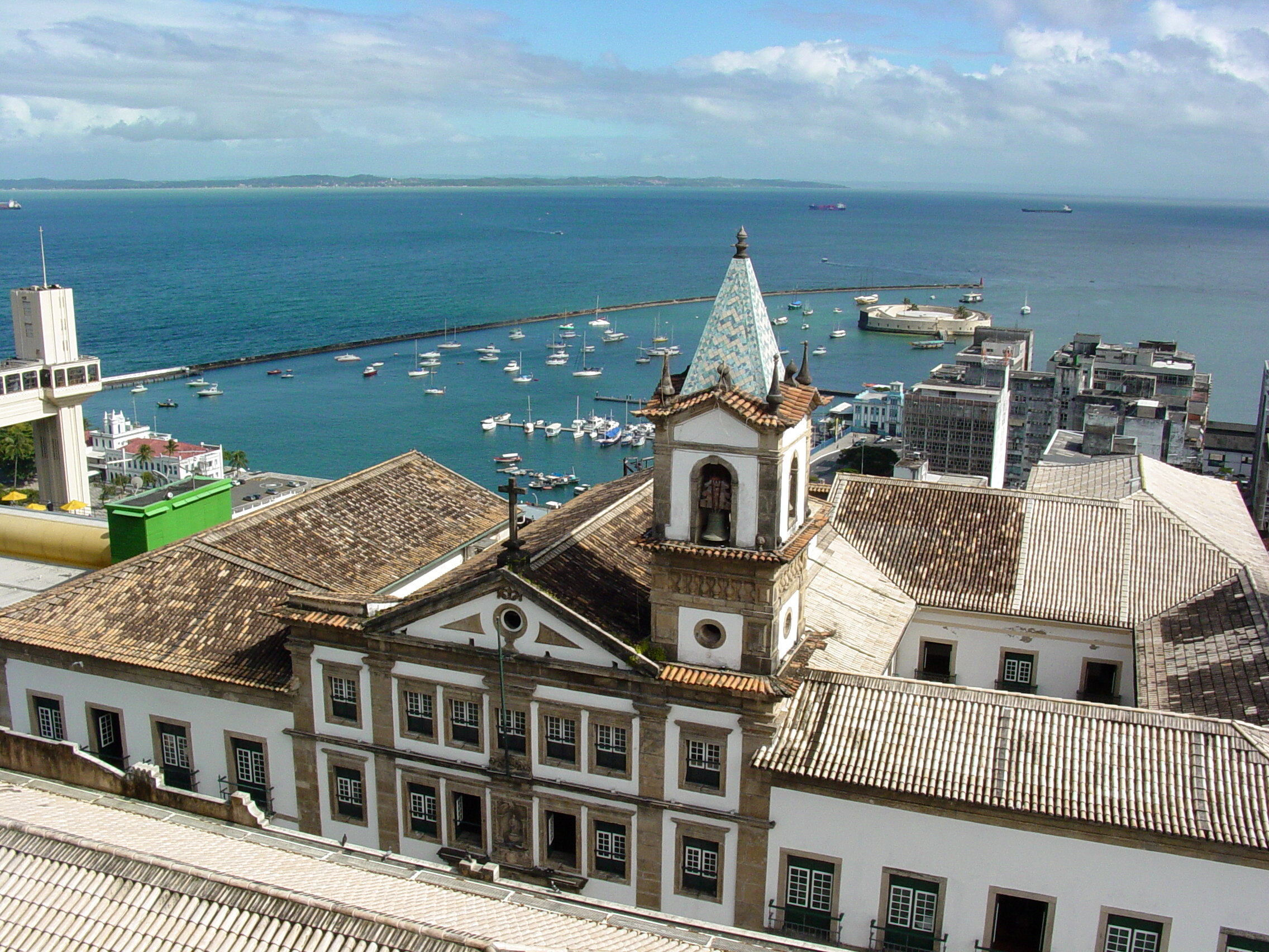 View over harbor area and Old Customs House in Salvador, Bahia state, Brazil. July 2006.